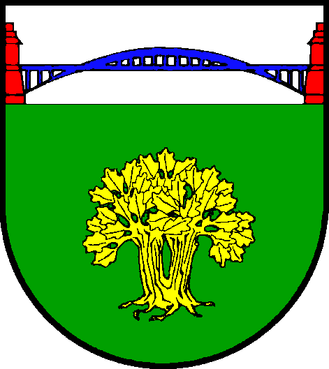 Coat of arms of the municipality Beldorf in Schleswig-Holstein, Germany.